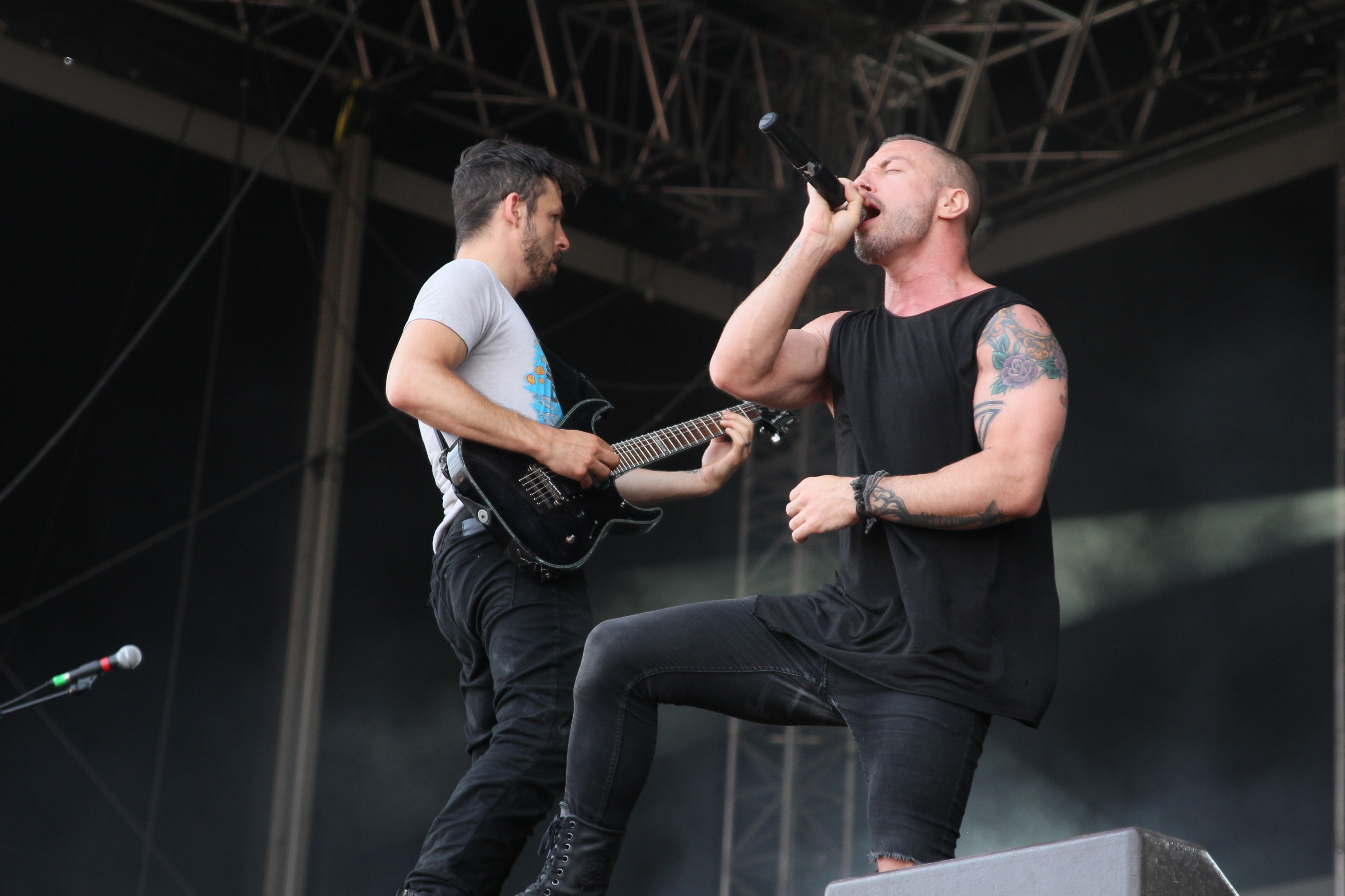 The American mathcore band The Dillinger Escape Plan at the With Full Force festival 2014 in Roitzschjora/Germany